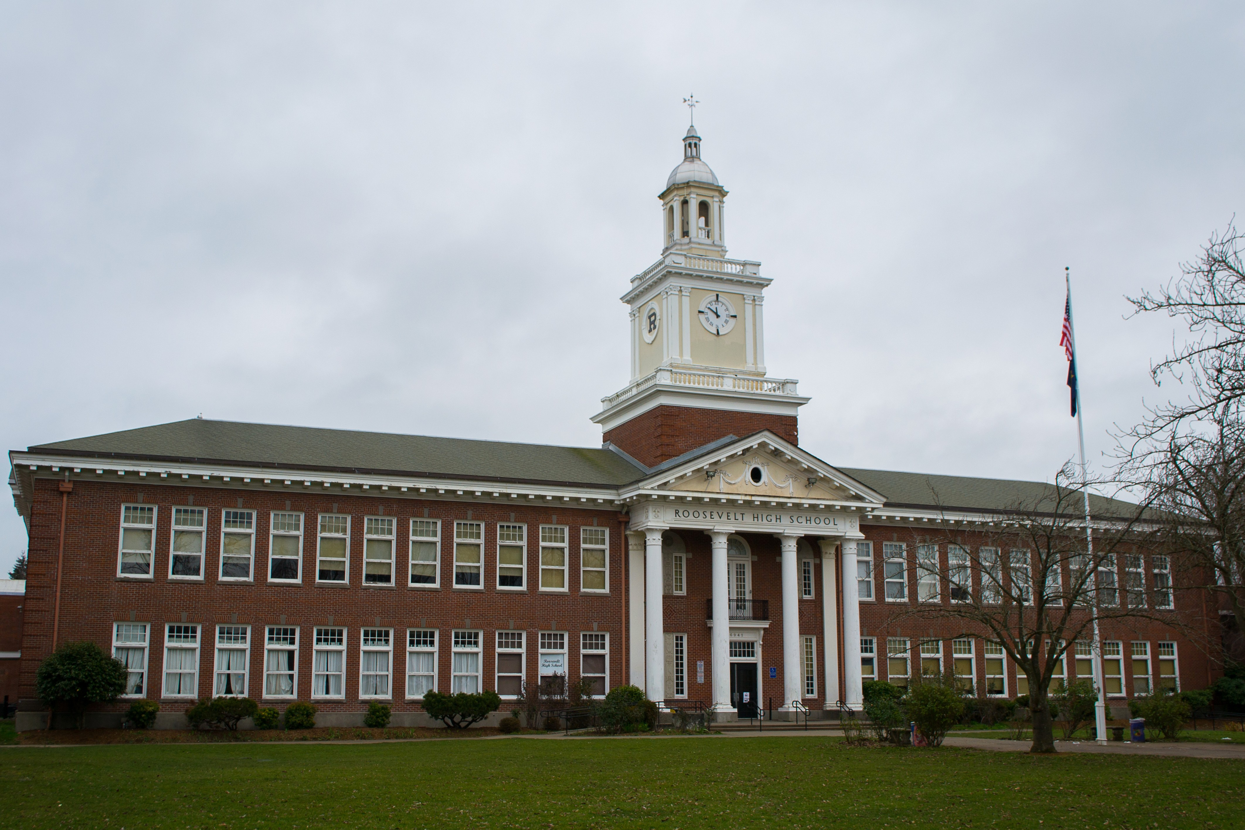 Roosevelt High School in the St. Johns neighborhood in Portland, Oregon